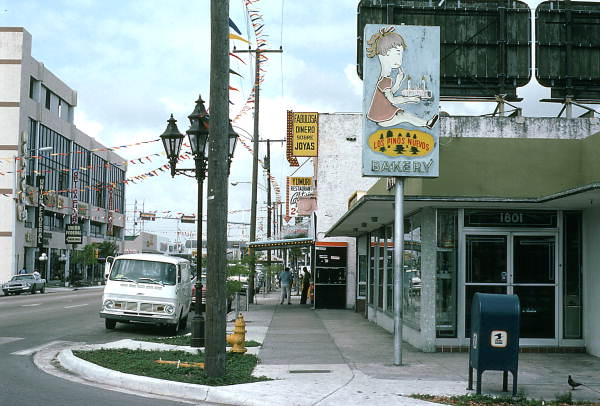 Local call number: fs80122 Title: Corner bakery in Little Havana - Miami Date: ca. 1978 Physical descrip: 1 slide - col. Series Title: Folklife Collection Repository: State Library and Archives of Florida, 500 S. Bronough St., Tallahassee, FL 32399-0250 USA. Contact: 850.245.6700. Persistent URL